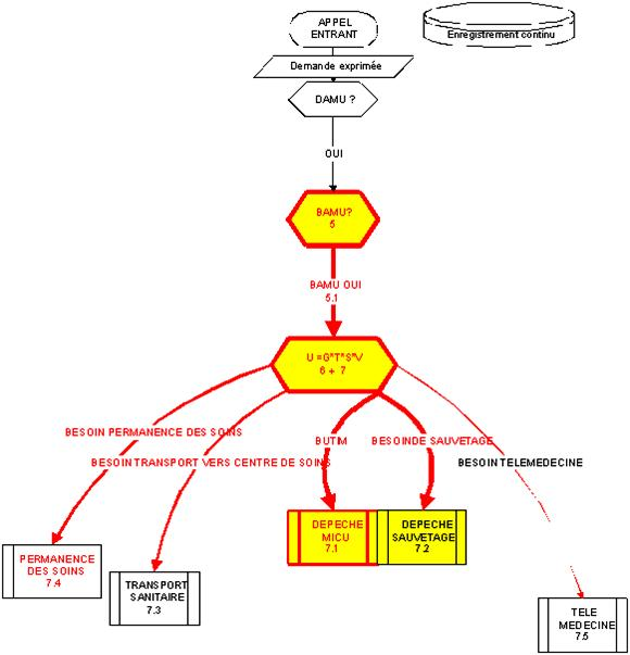 last Tasks of Medical Regulation